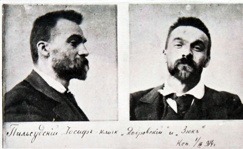 Józef Piłsudski (1867-1935) - Official mug shot made by tsarist Okhrana after his arrest in 1900